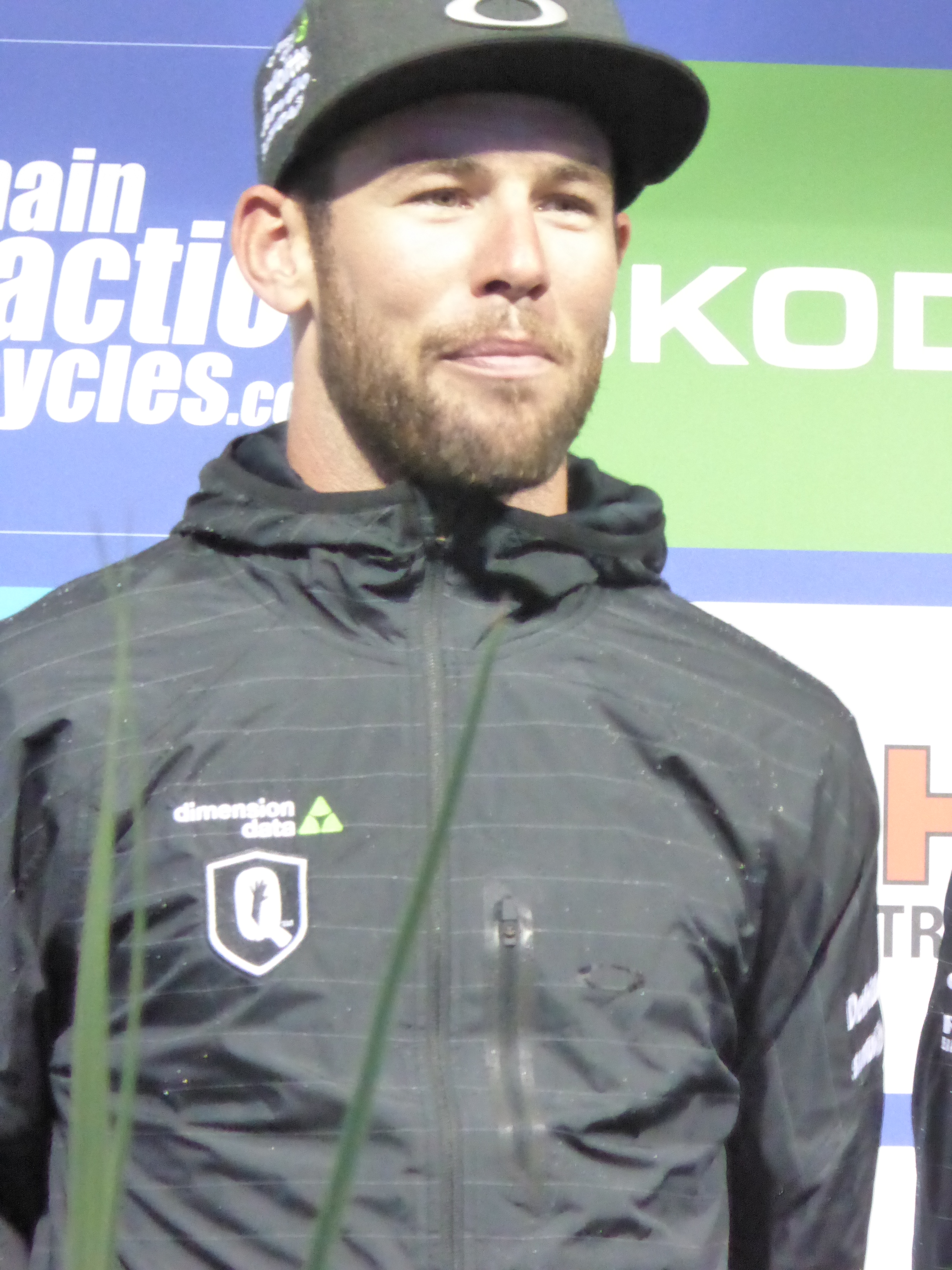 Mark Cavendish (Team Dimension Data), pictured at the 2016 Tour of Britain team presentation in Glasgow on 3 September 2016.